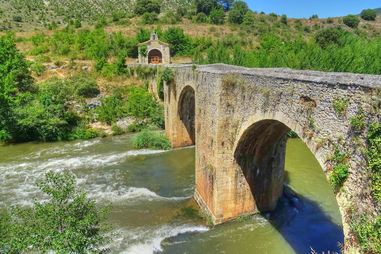 Bridge of Pesquera de Ebro, in the background the hermitage of San Antonio